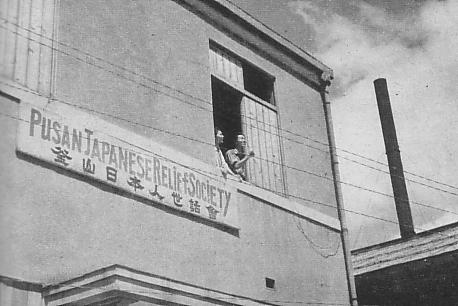 Pusan Japanese Relief Society